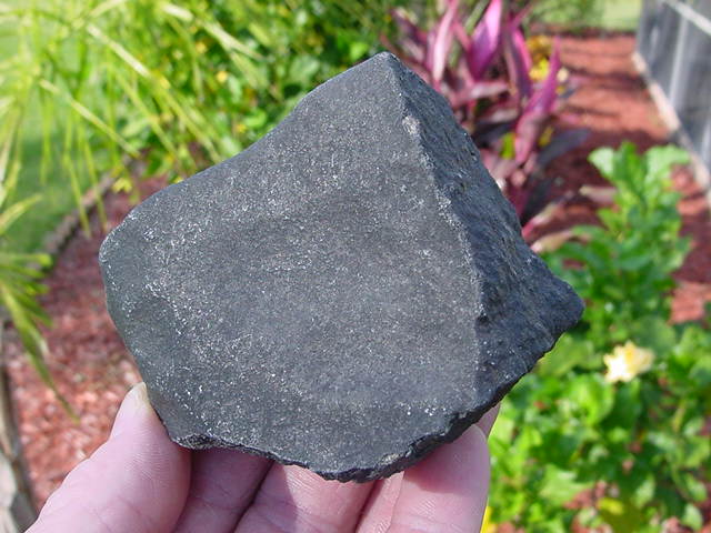 Chergach stone meteorite. 601 grams.